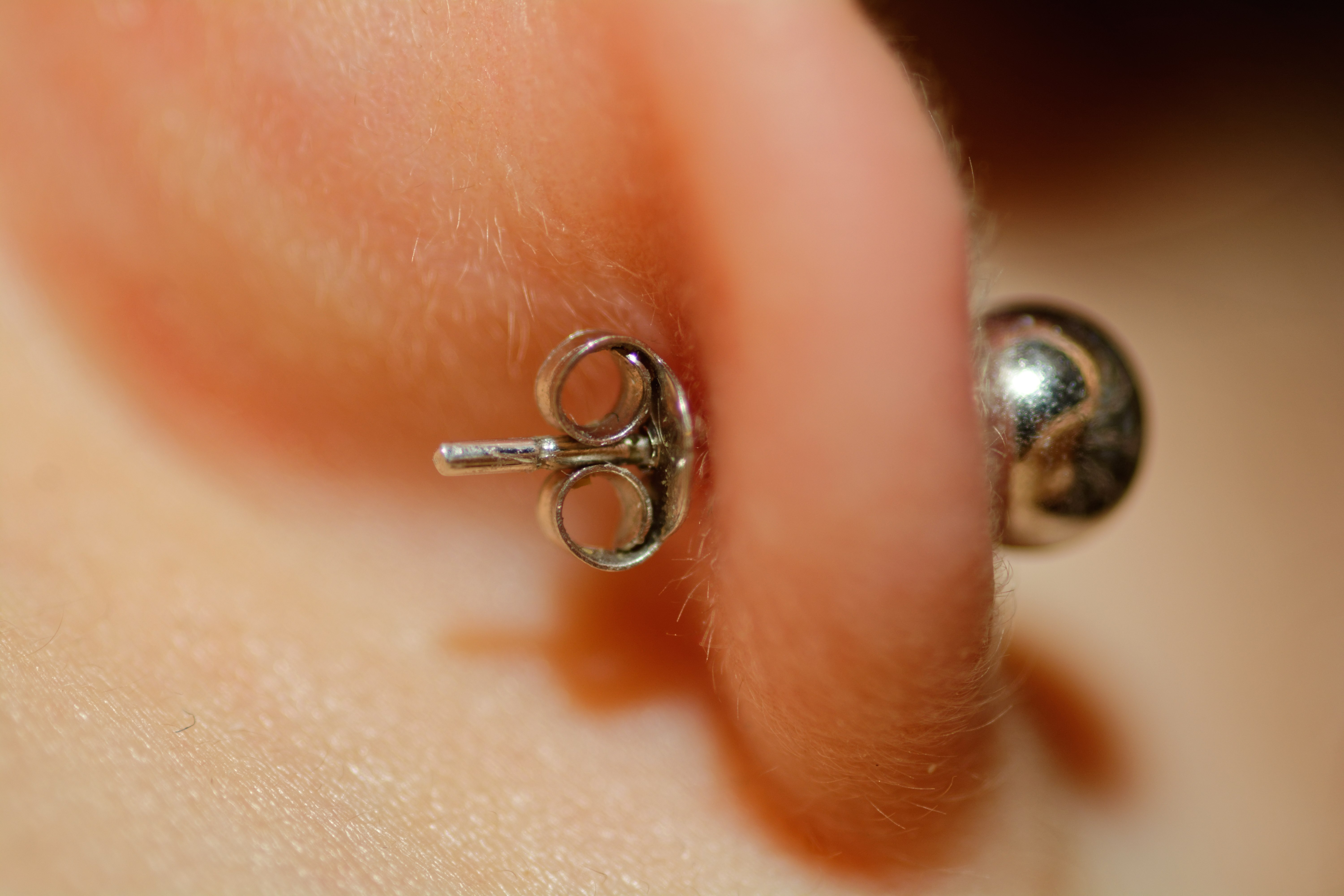 Close-up of the back of a stud earring.